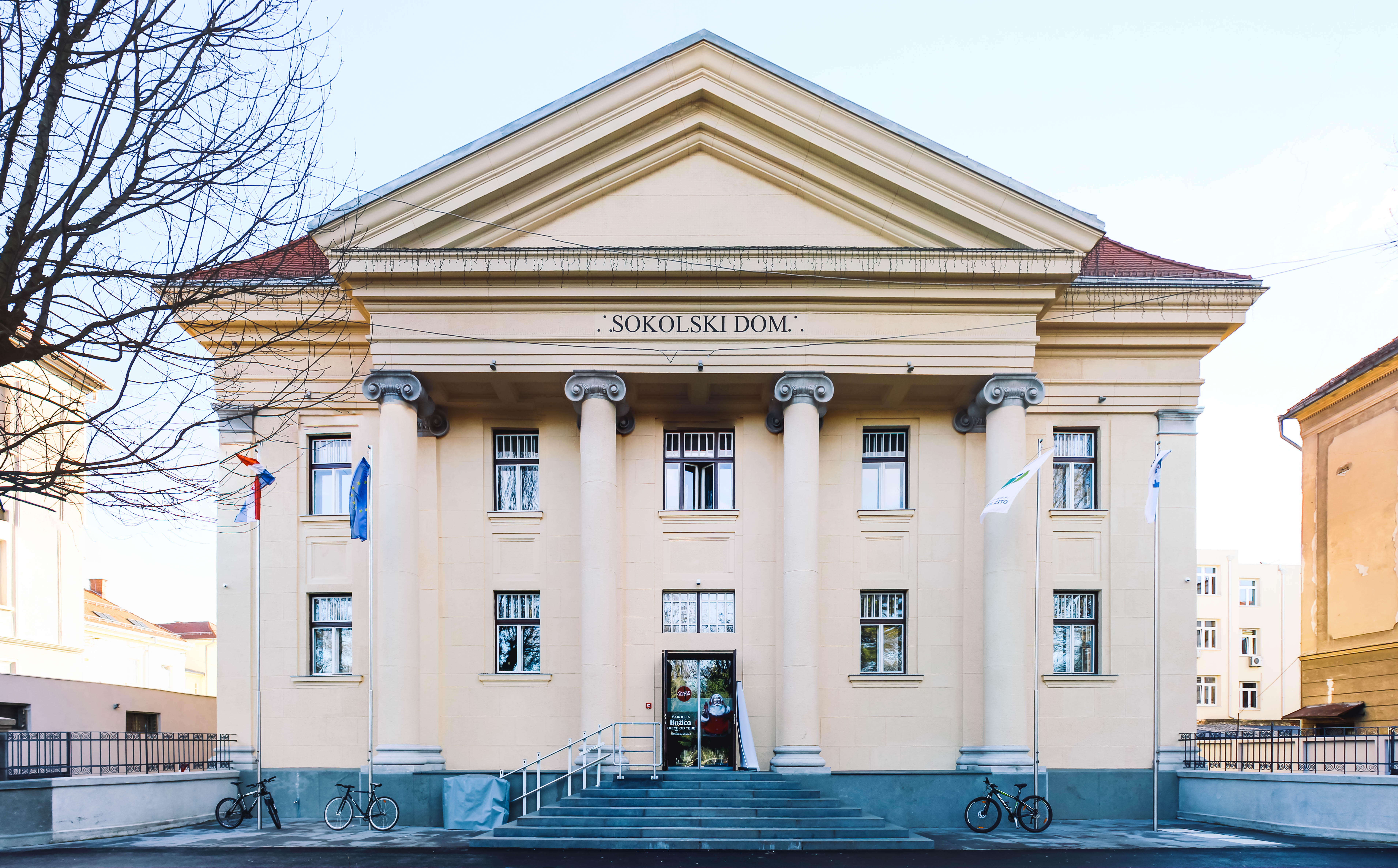 Sports hall